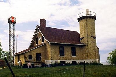 Chambers Island Light, Wisconsin, USA. Taken by me, Jjegers